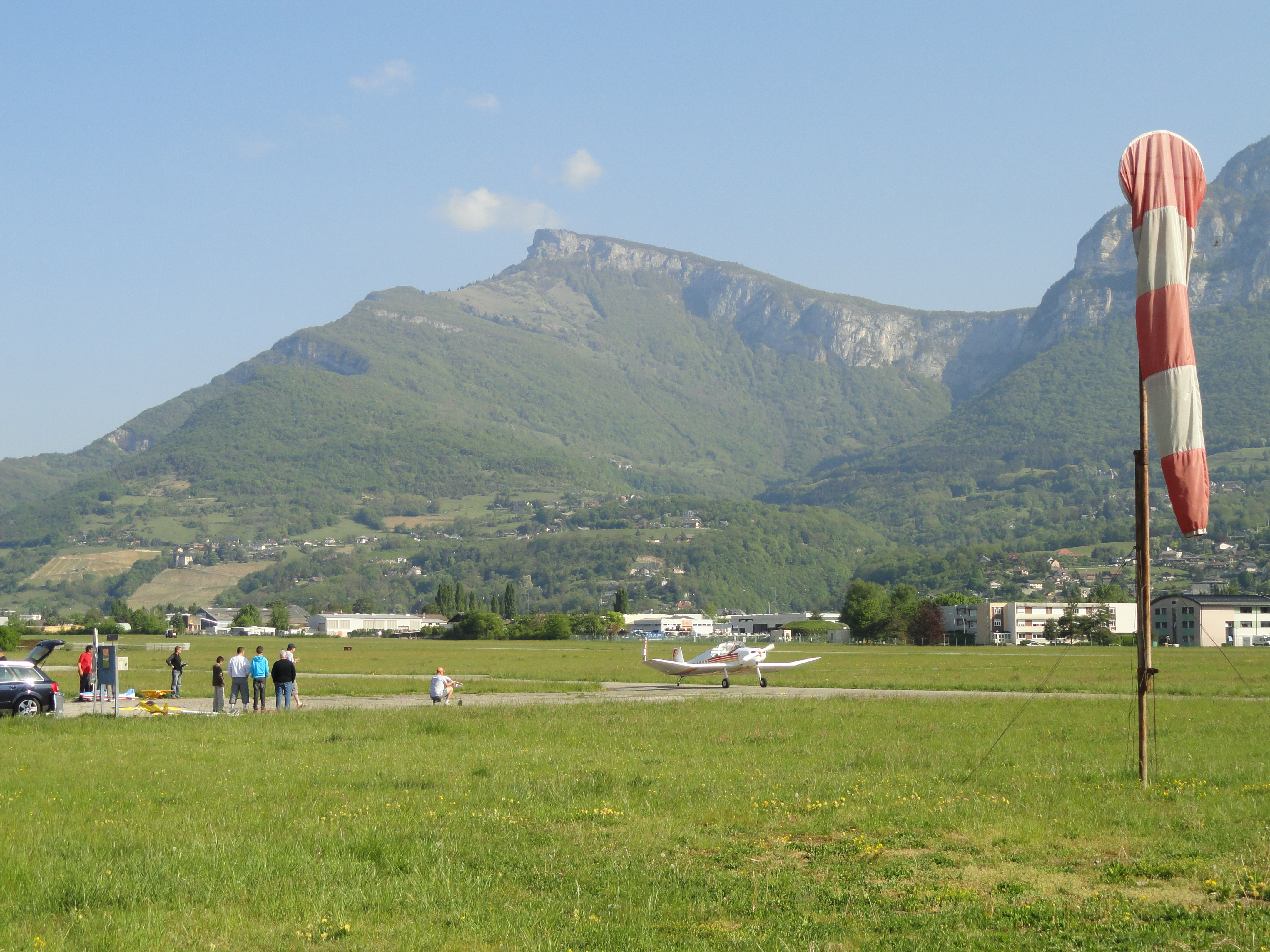 Chambéry Aerodrome, Challes-les-Eaux, France.